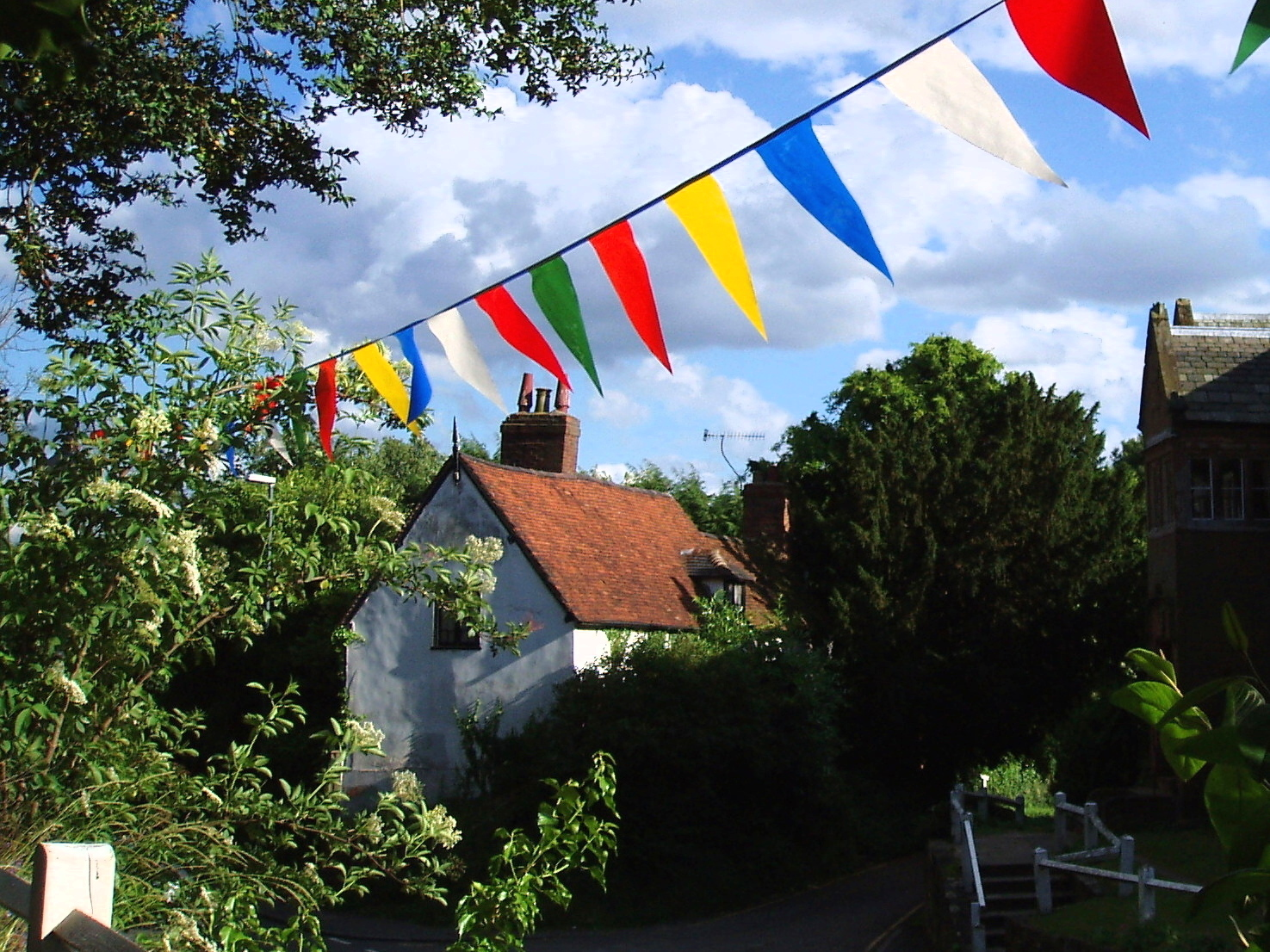 Bunting of triangular flags hung in Coventry, England. Photographer's caption: "The bunting is out in the village again...it must be summer."